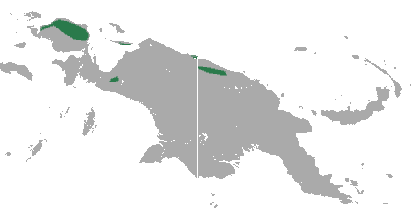 D'Albertis' Ringtail Possum (Pseudochirops albertisii) range